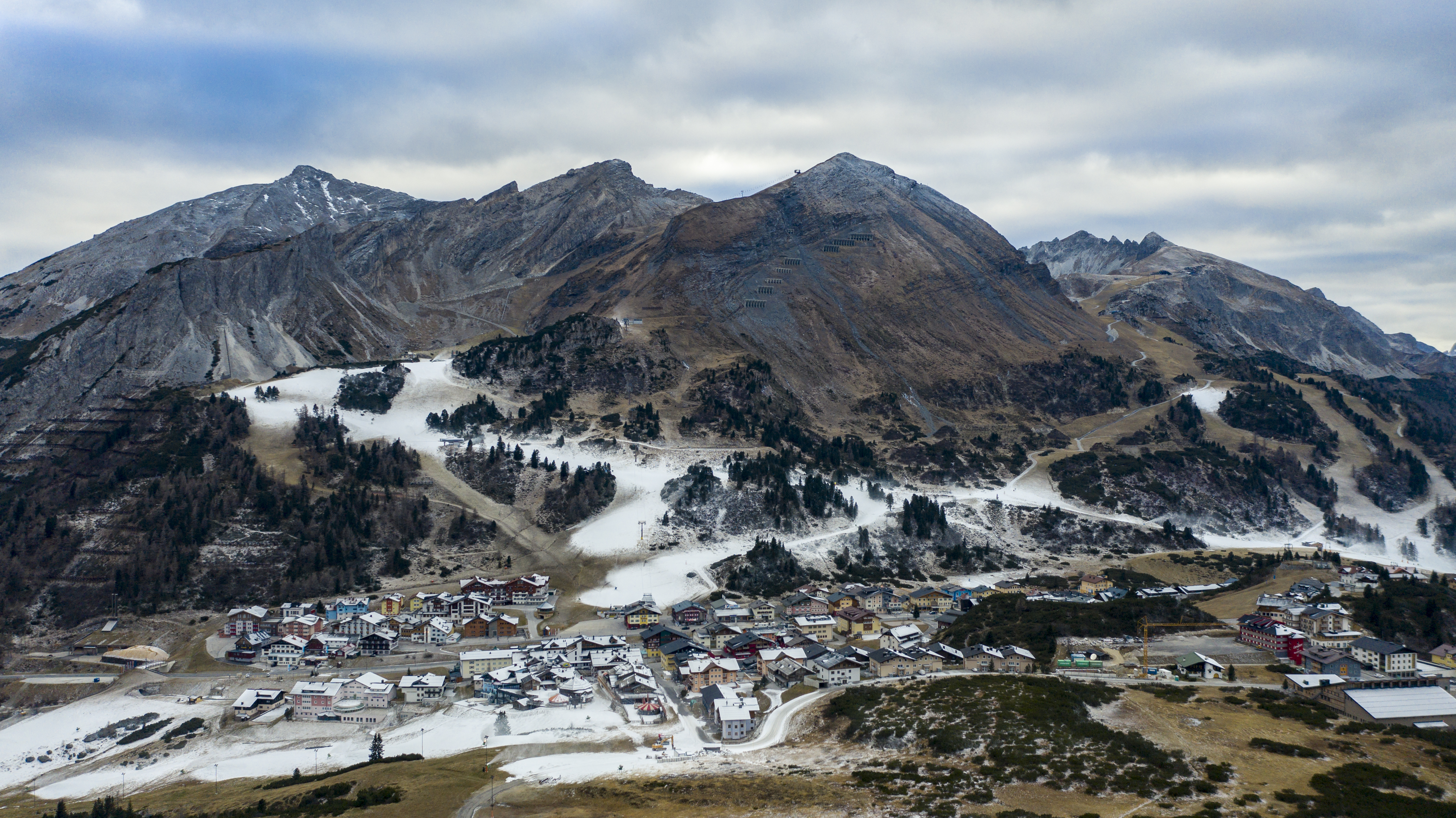 Aerial view of Obertauern, Untertauern, Salzburg, Austria